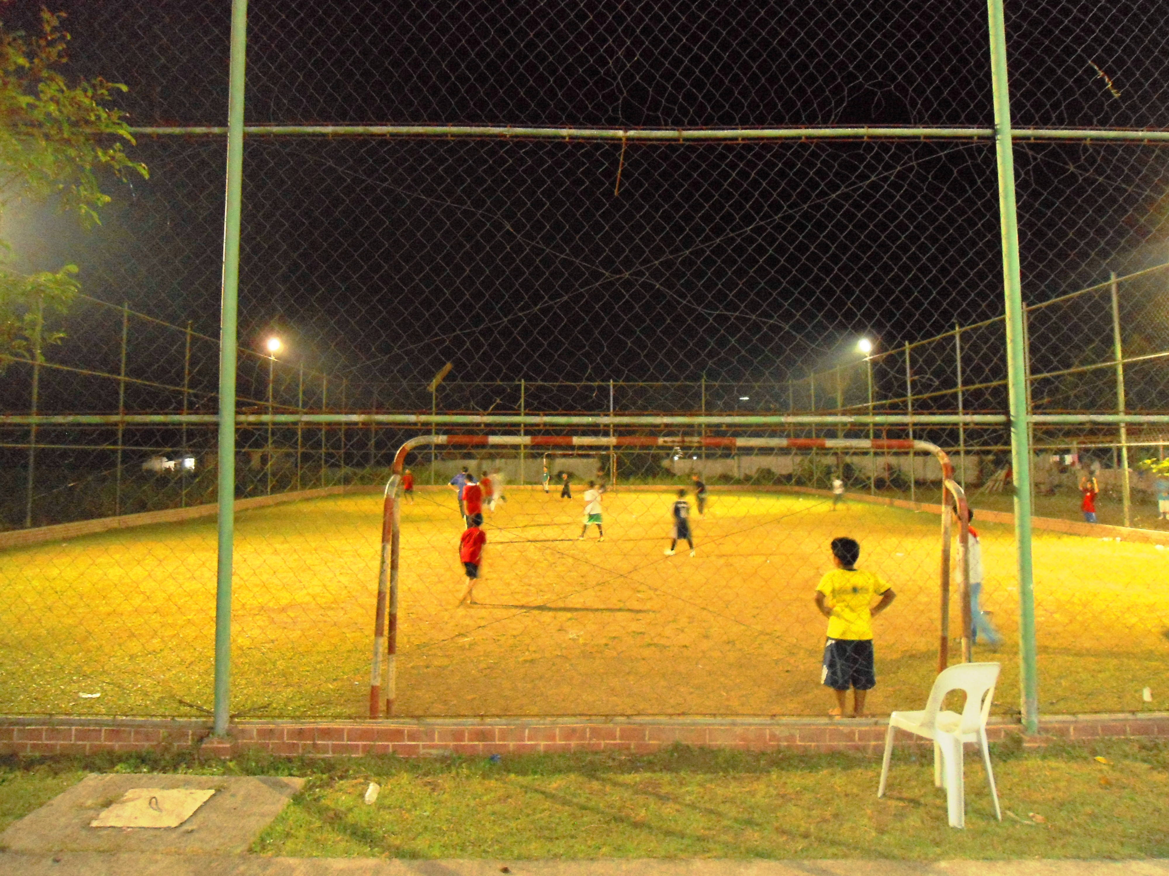 Soccer Field